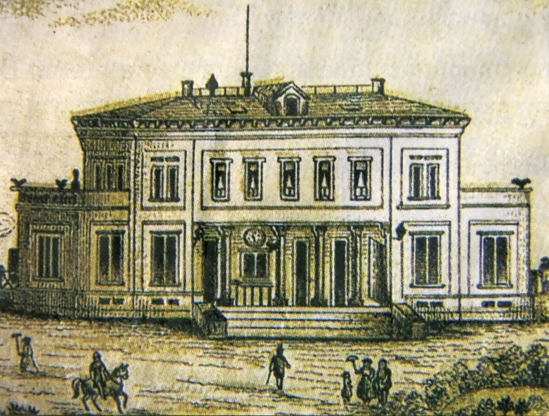 Lithographic picture of Bensheim's railway station from 1882